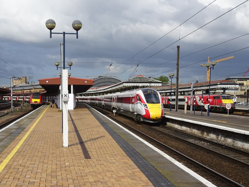 Three generations of East Coast Main Line trains at YorkTo the left is a 1970s diesel "InterCity 125" or High Speed Train (HST). To the far right is a 1980s electric "InterCity 225". In the centre, is the 2010s bi-mode "Azuma" which can work by diesel or electric.